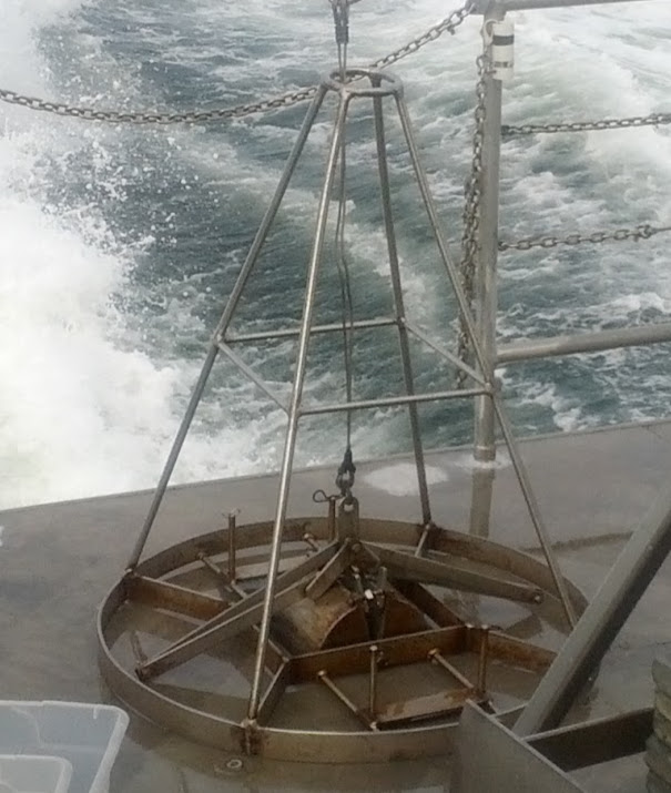 Young grab, or Young modified Van Veen grab sampler, on the deck of a research vessel. The gear is in the locked position.